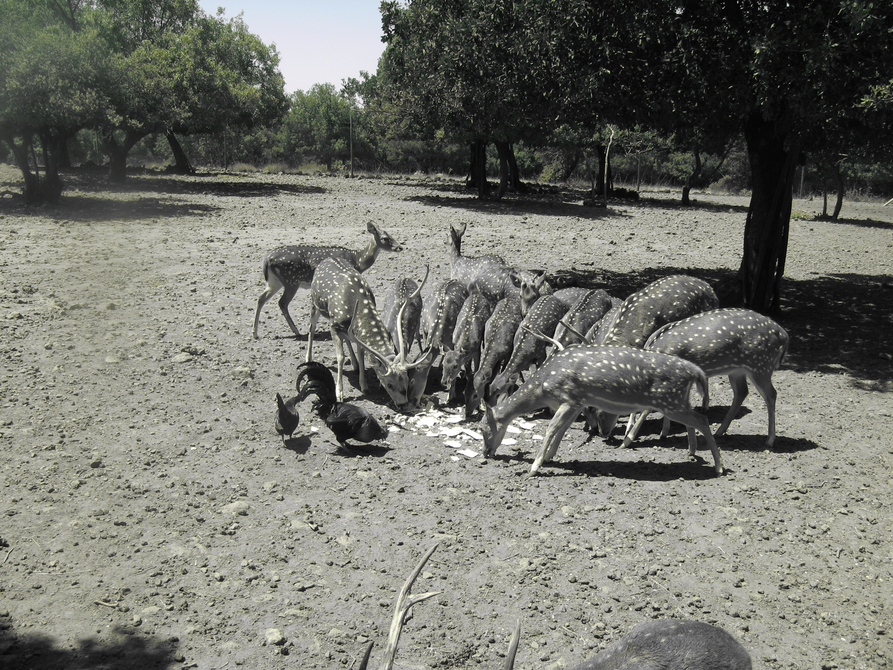 Wildlife and Plants of Israel